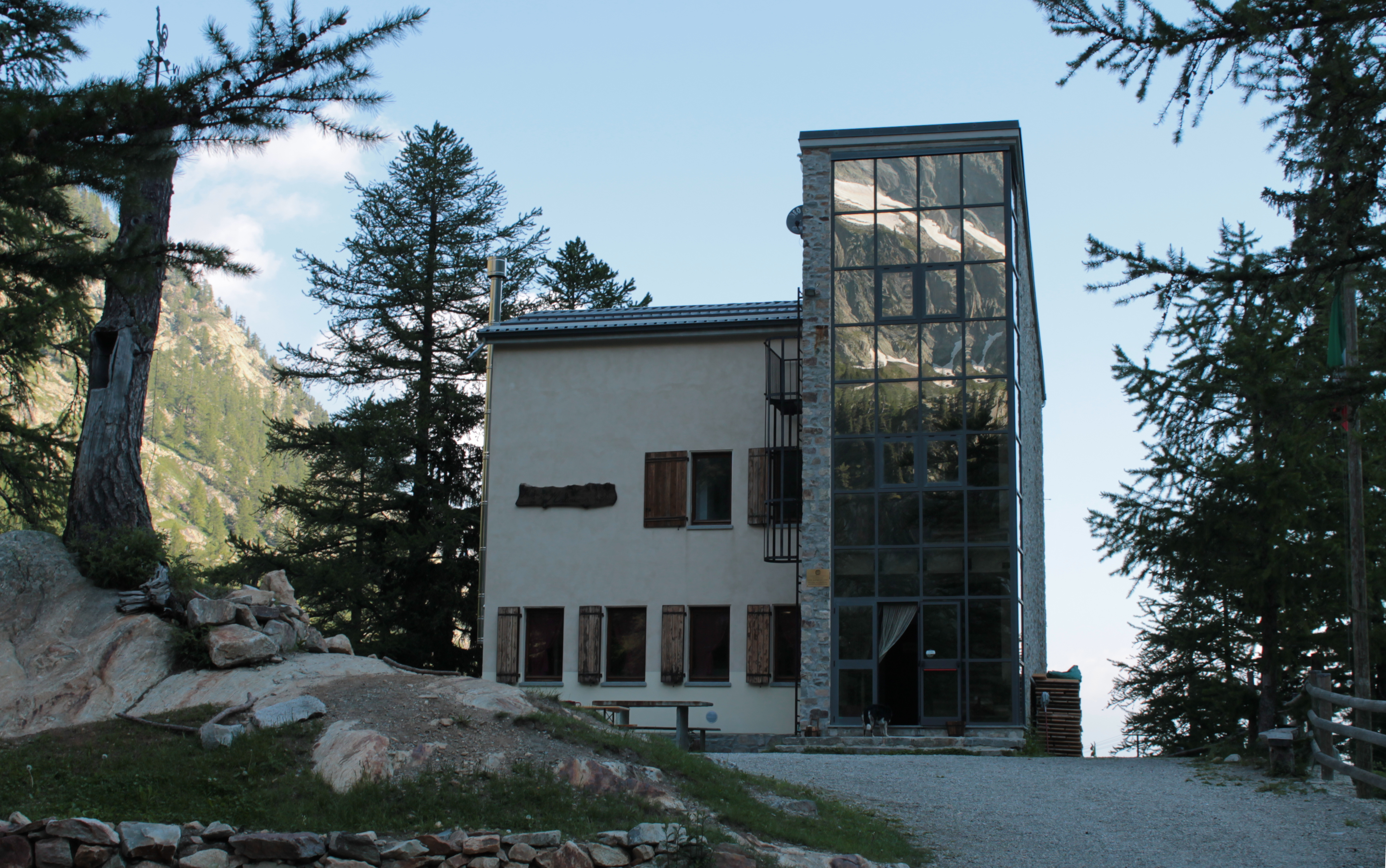 View of the Rifugio Malinvern (Malinvern's alpine hut) (Italy)